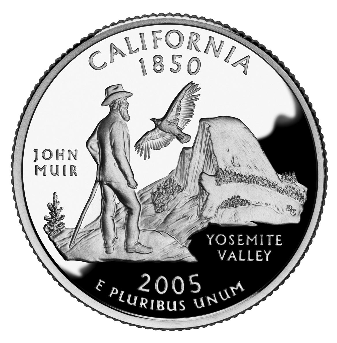 The reverse side of the California State Quarter. It is a "proof".